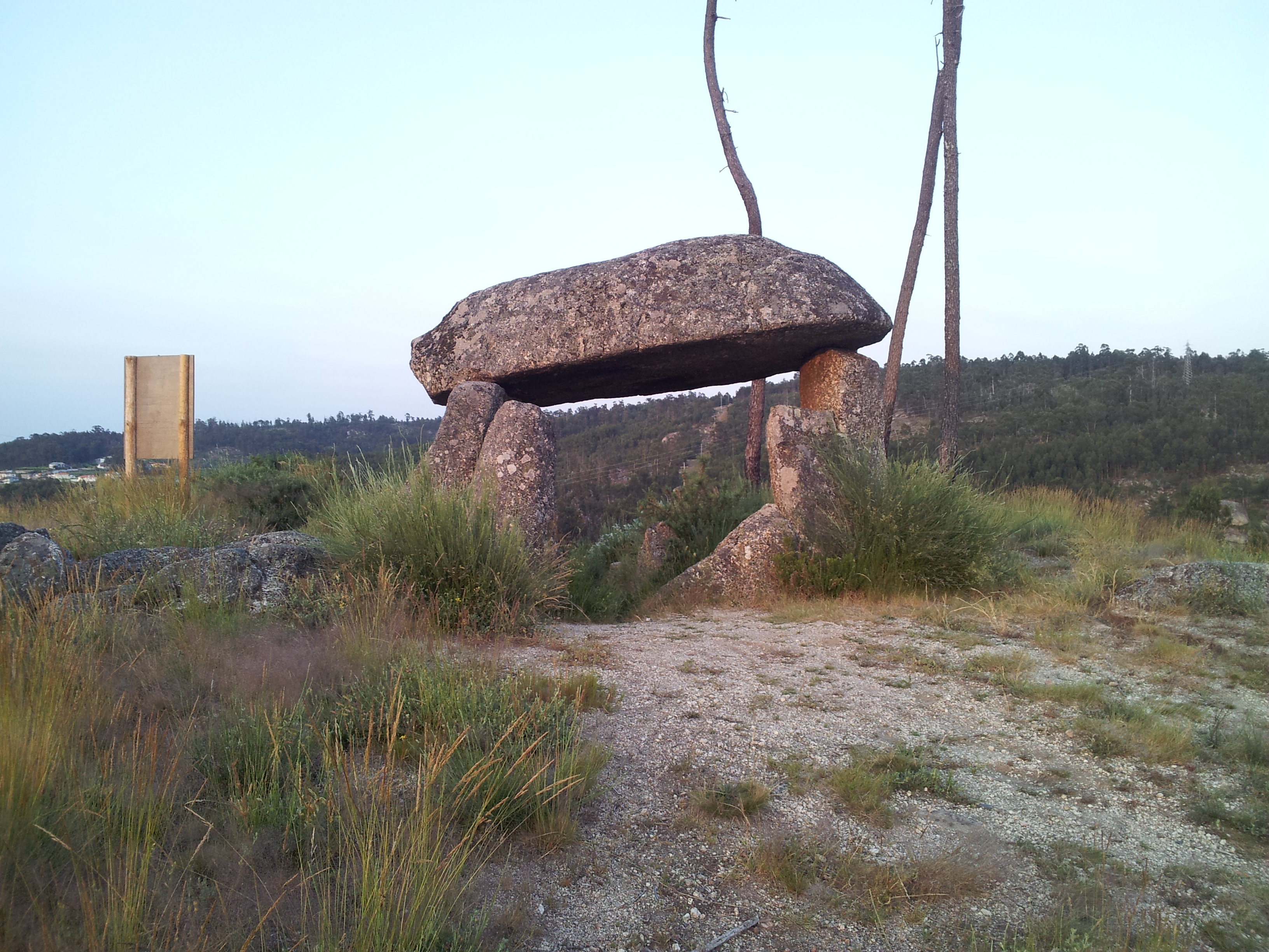 Anta de Santa Marta